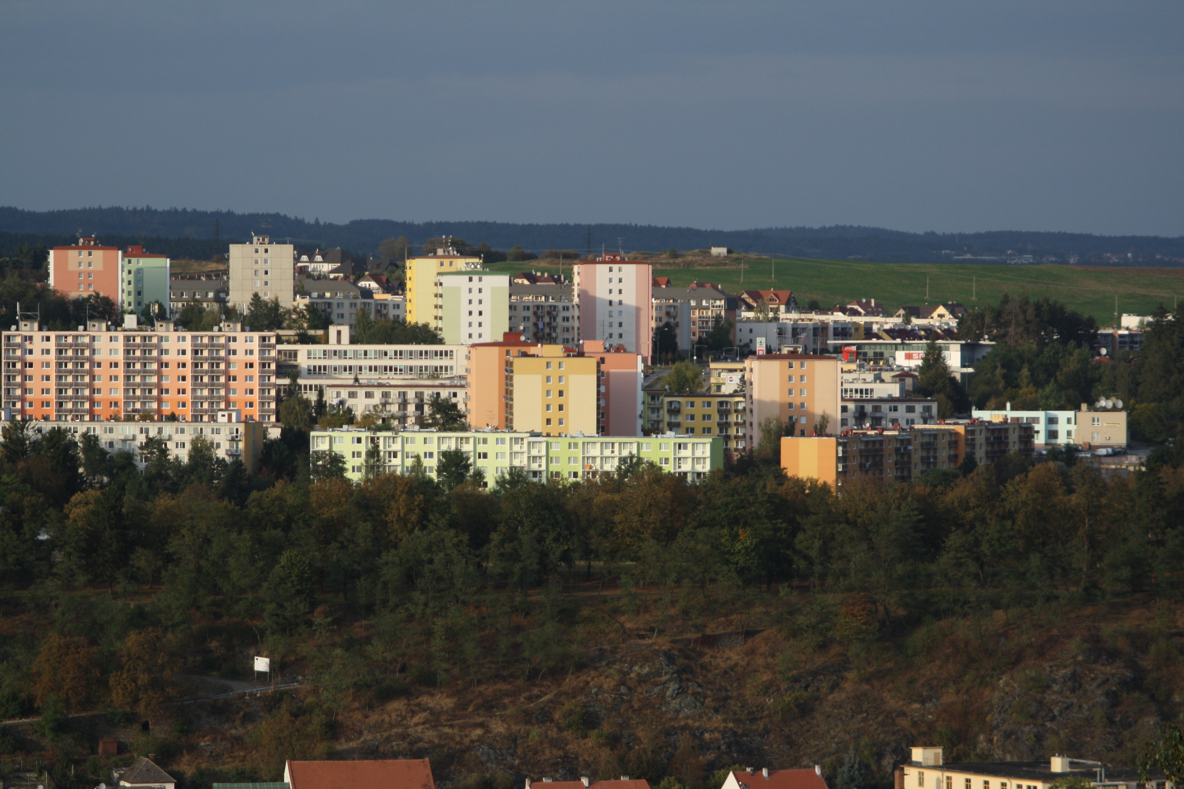 Blocks Hájek in Třebíč, Czech Republic.